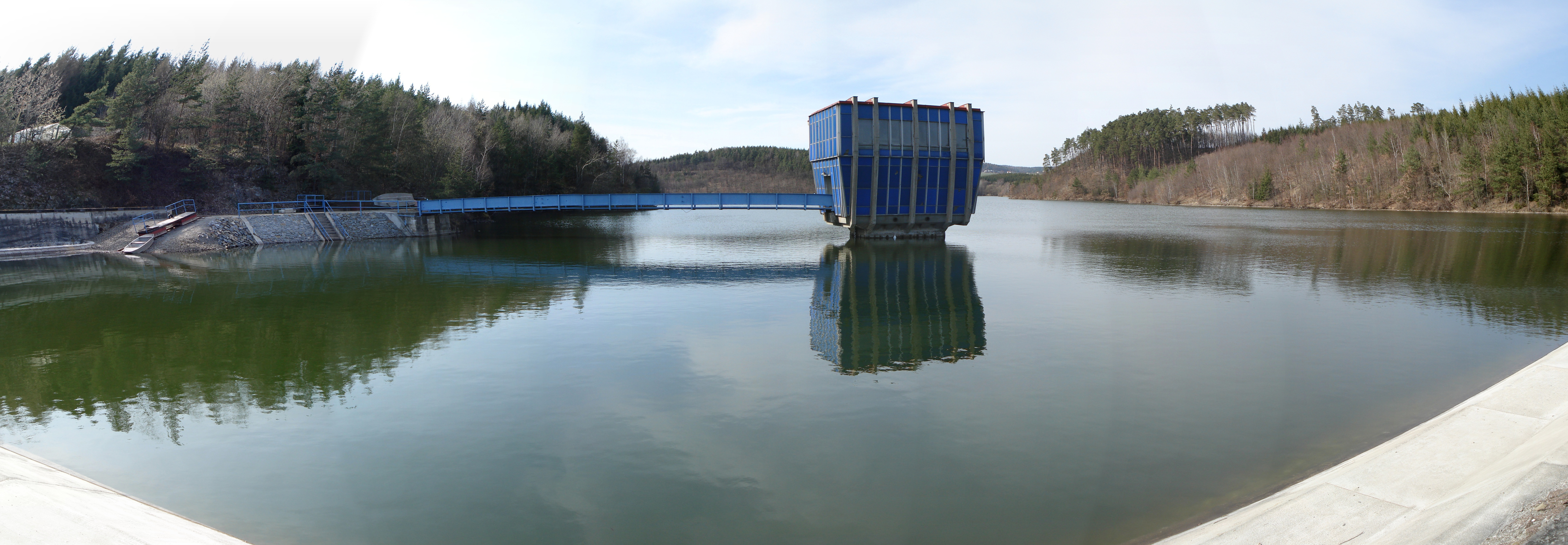 A panoramic view of Opatovice dam